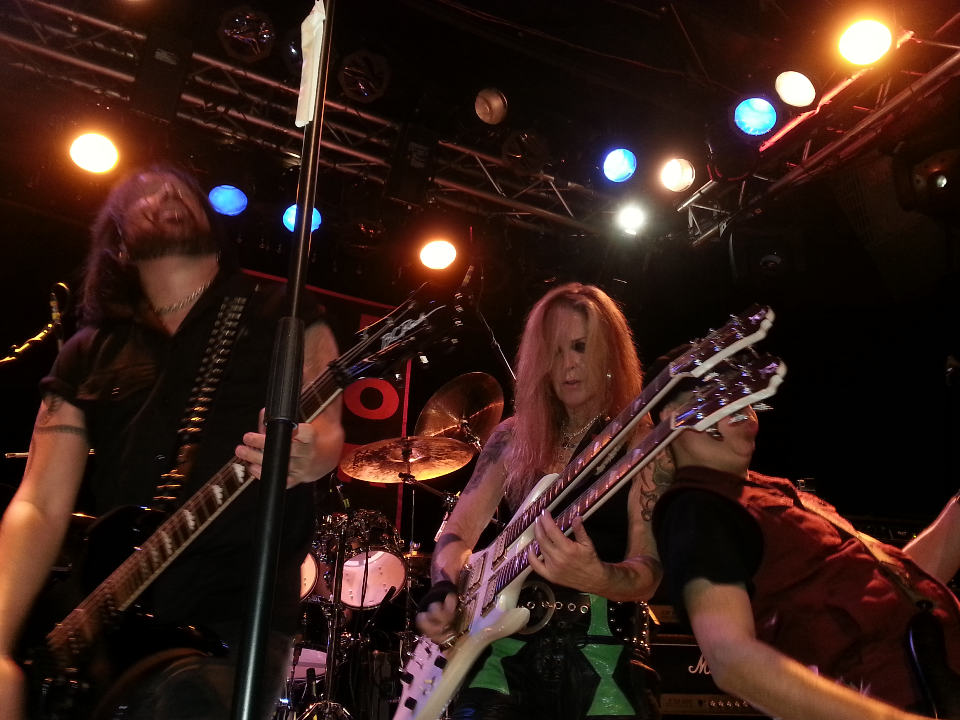 Marty Obrien performing with Lita Ford and Patrick Kennison